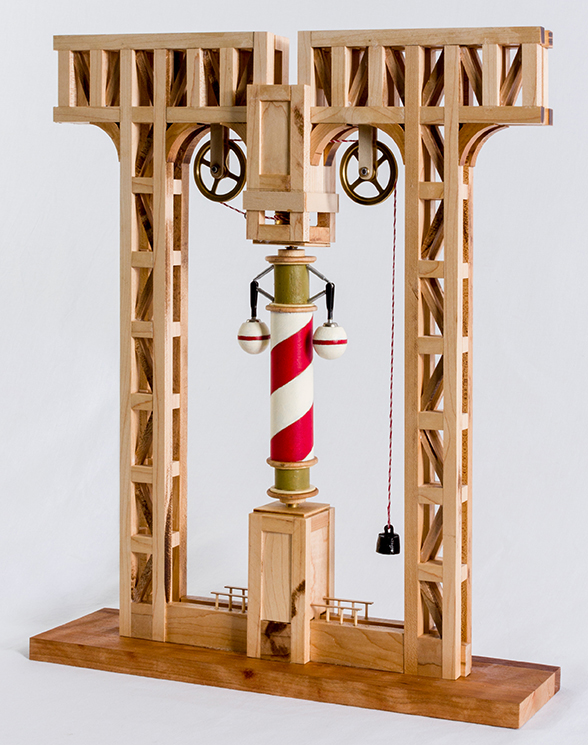 Richard Whitten, "Gouverneur de Vapeur" (Steam Engine governor), Mixed-Media Sculpture, 22" x 20" x 4", 2020